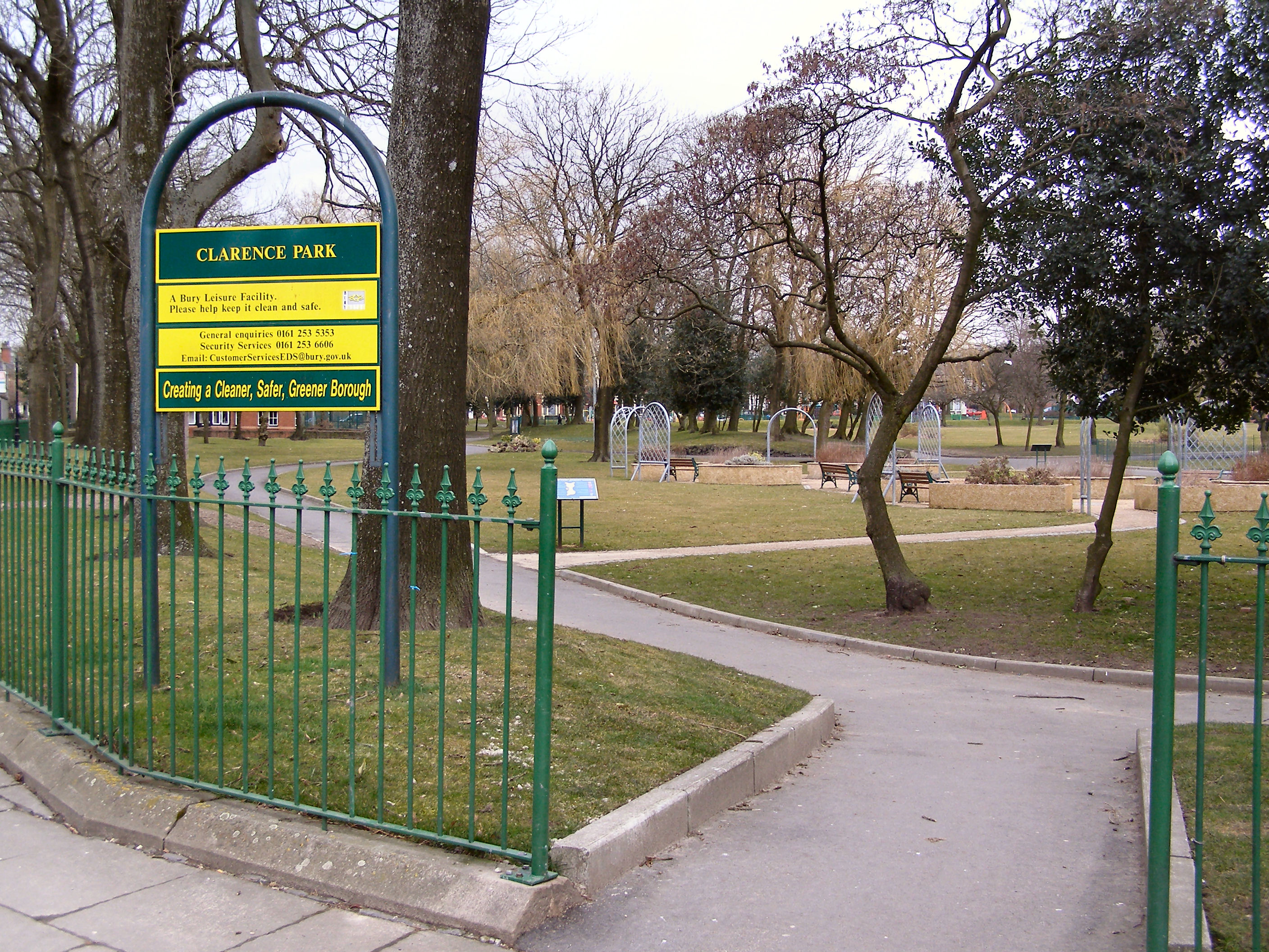 Clarence Park The entrance at the corner of Hamilton Road and Walmersley Road.